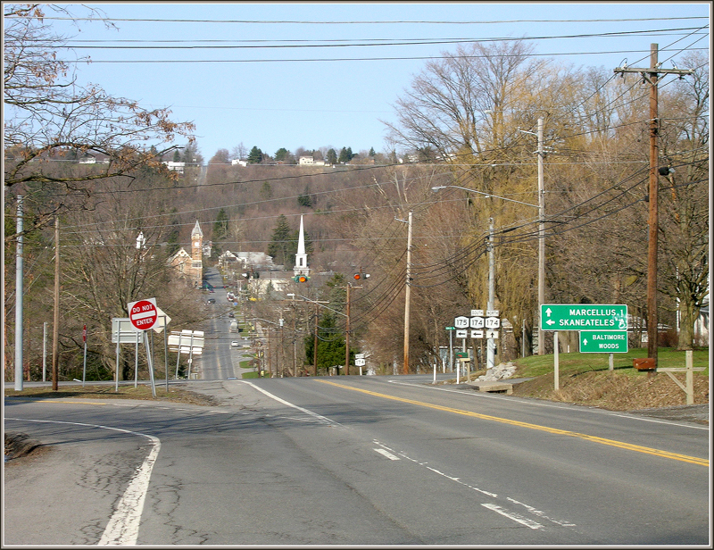 Paul Malo photograph The photographer contributed this image.